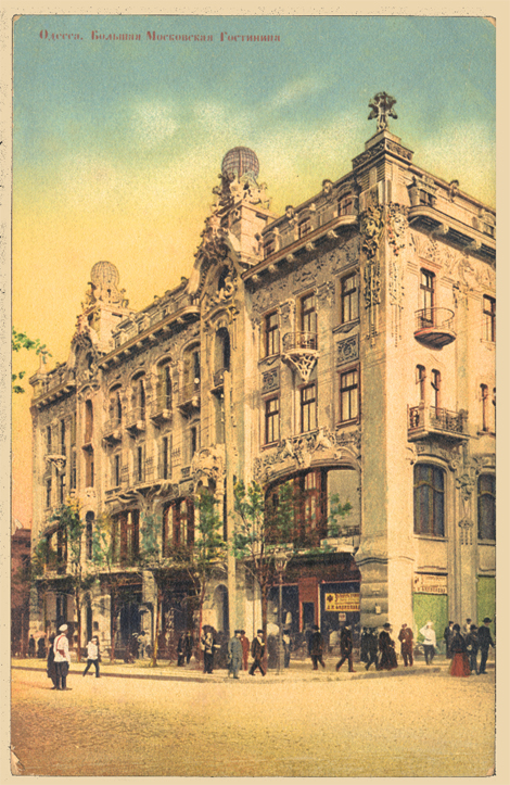 Great Hotel Moscow